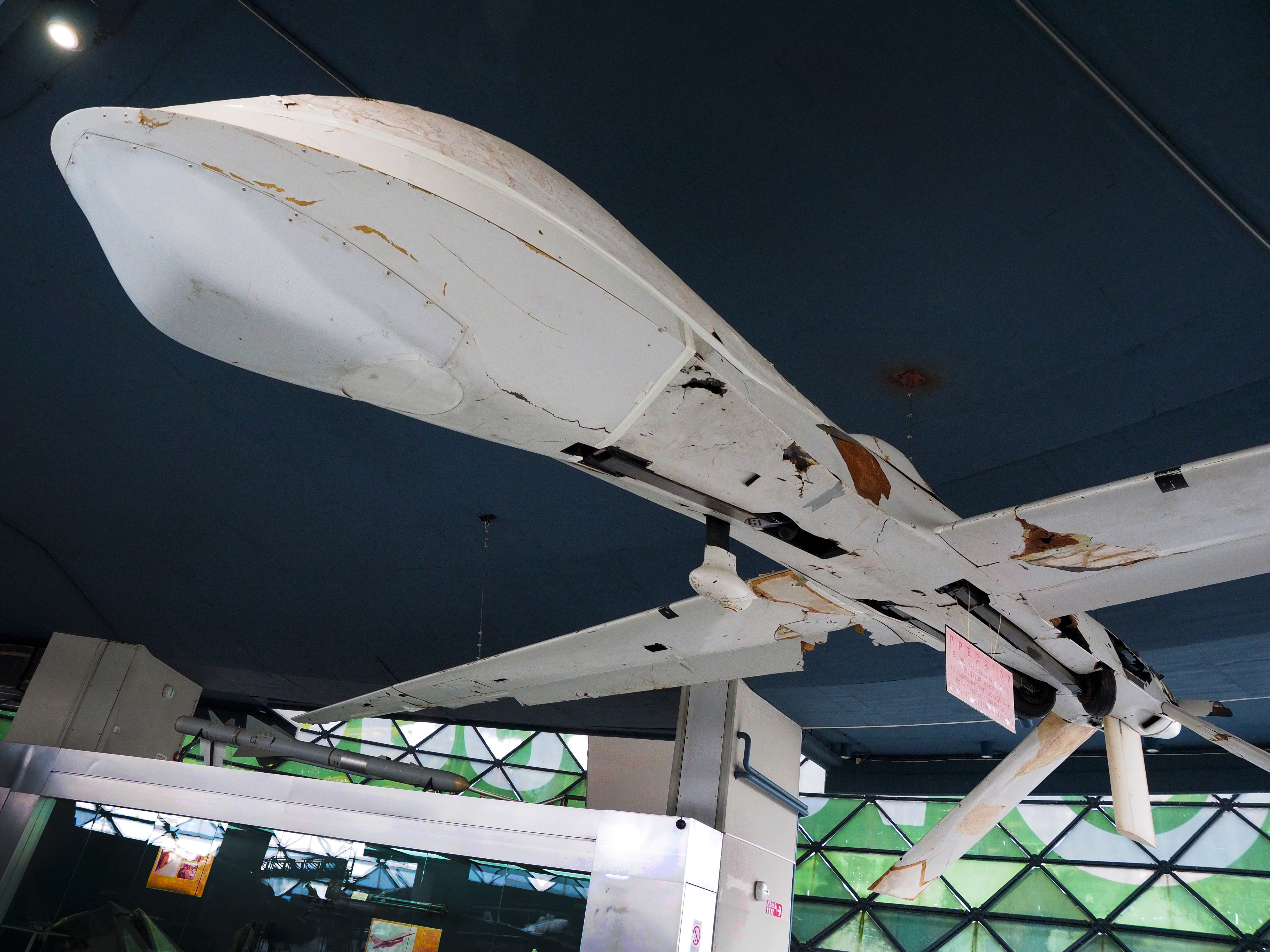 Predator MQ-1 (war trophy in Museum of Aviation, Belgrade, Serbia), shot down on 13 May 1999 over Uroševac, Serbia